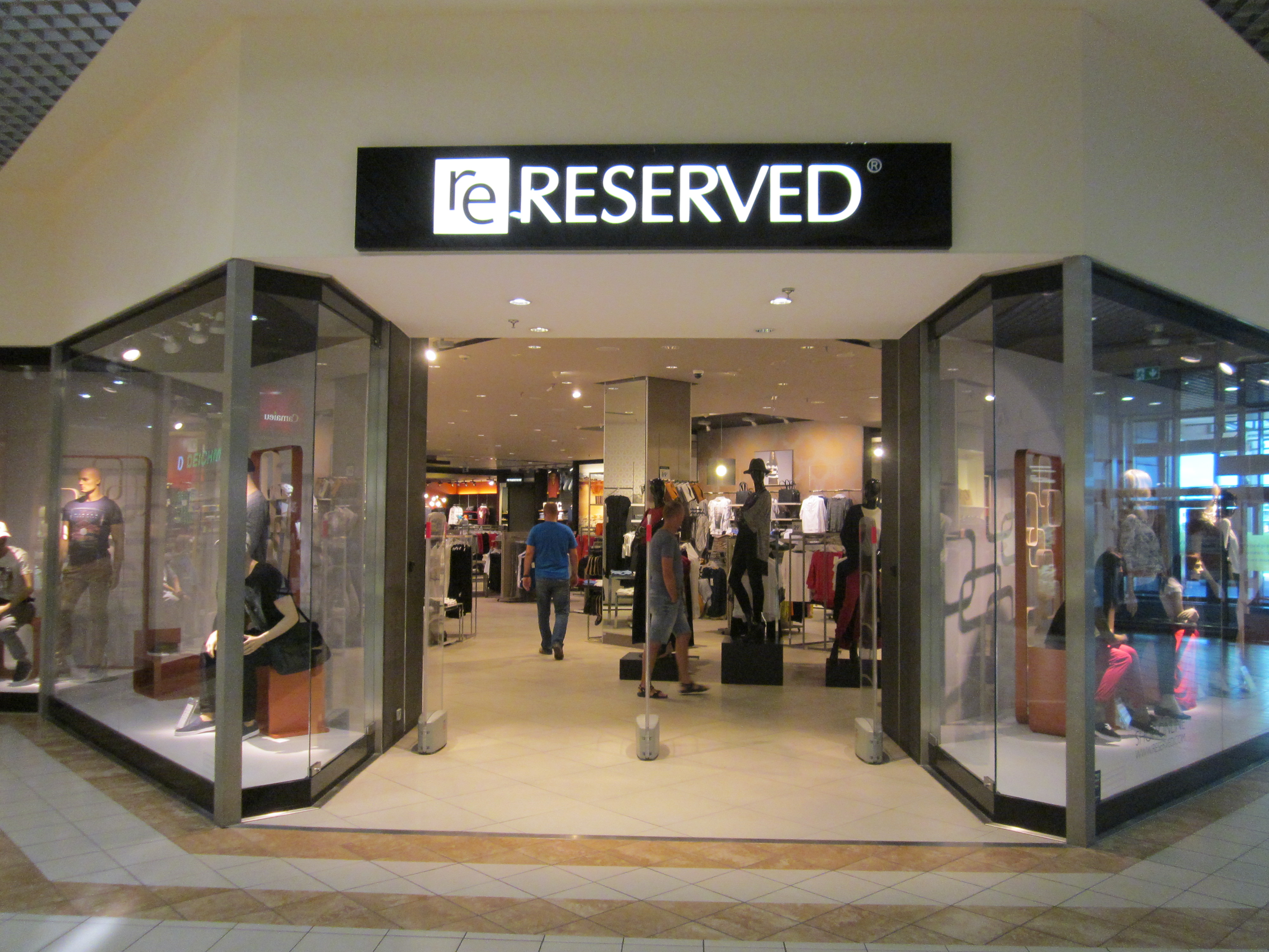 Interiors of Galeria Zielone Wzgórze, Białystok. Reserved clothing shop